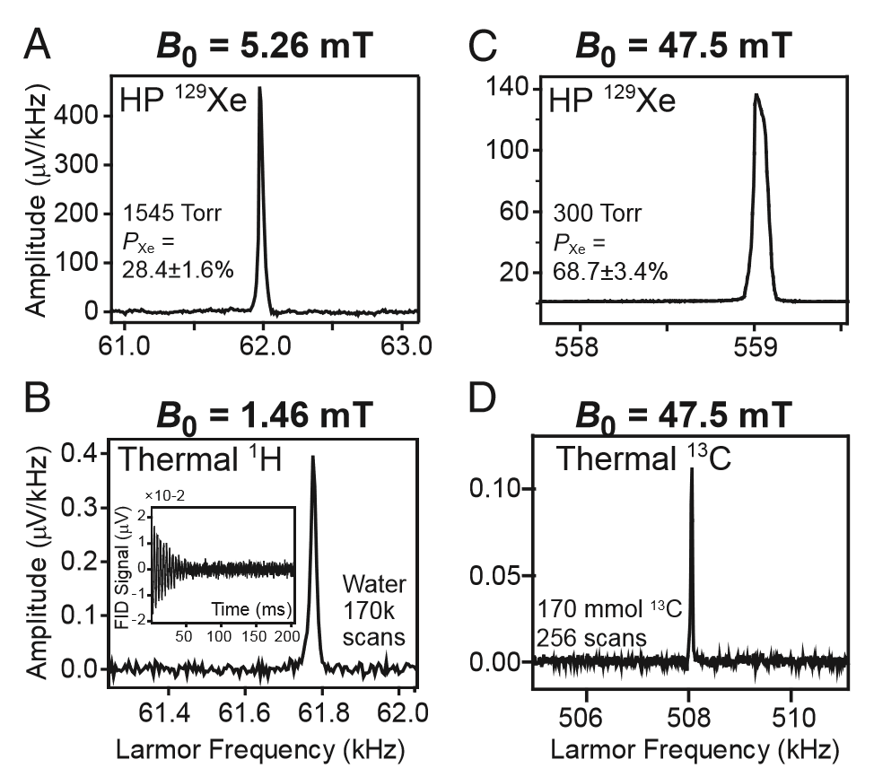 Measurements of the Polarization of 129Xe(g) in presence of low and intermediate magnetic fields. All (A-D) figures are NMR signal amplitude in μV/KHz vs Larmor Frequency in KHz. (A) Enhanced 129Xe(g) NMR signal at 62KHz Larmor Frequency from the SEOP cell; Xenon(g) has 1545 torr and Nitrogen(g) has 455 torr pressure and NMR data was collected in presence of 5.26mT magnetic field. (B) Reference NMR signal for water Proton Spin (111M), doping with CuSO4. 5H2O(s), 5.0mM and polarization has been created thermally in presence of 1.46 mT magnetic fields (number of scans was 170,000 times). (C) NMR data for Hyperpolarized 129Xe was collected in presence of 47.5mT magnetic fields.(129Xe was 300 torr and N2 was 1700 torr).(D) Reference NMR signal for 13C was collected from 170.0mM CH3COONa(l) in presence of 47.5mT magnetic field.32